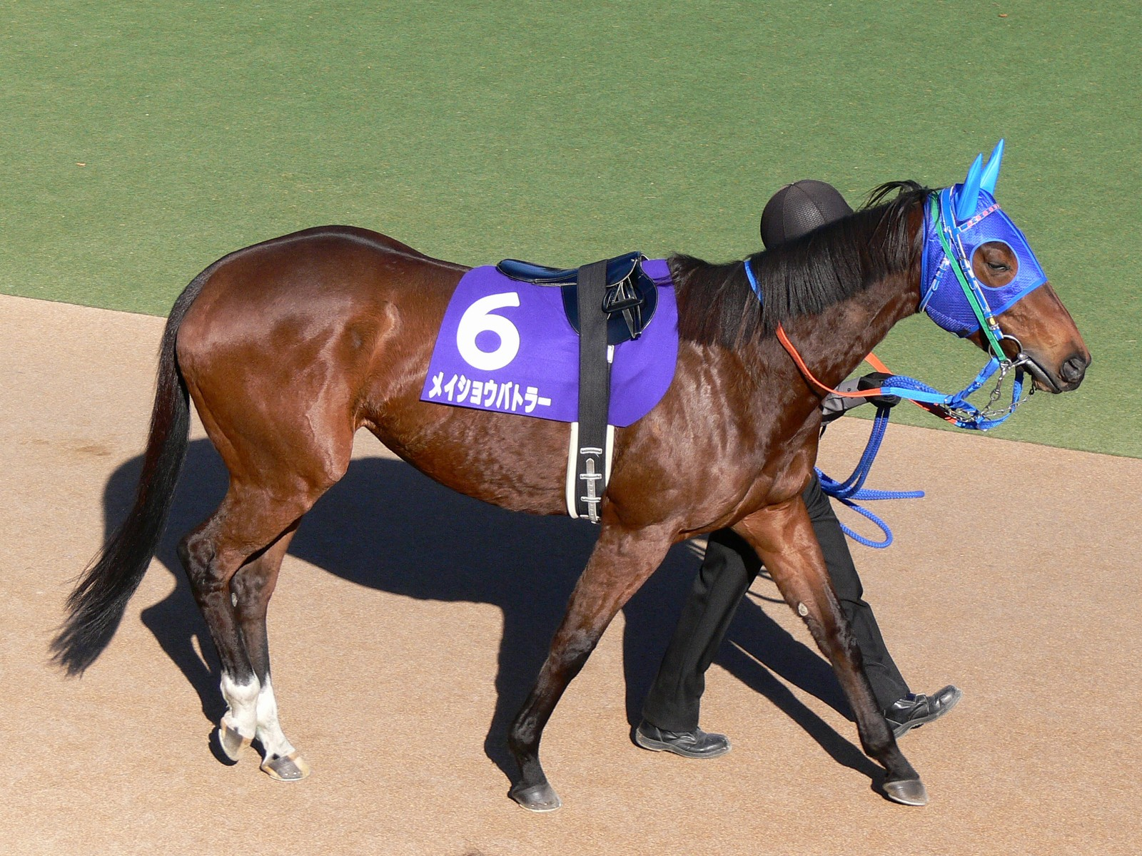 Meisho-battler at "February stakes(GI).